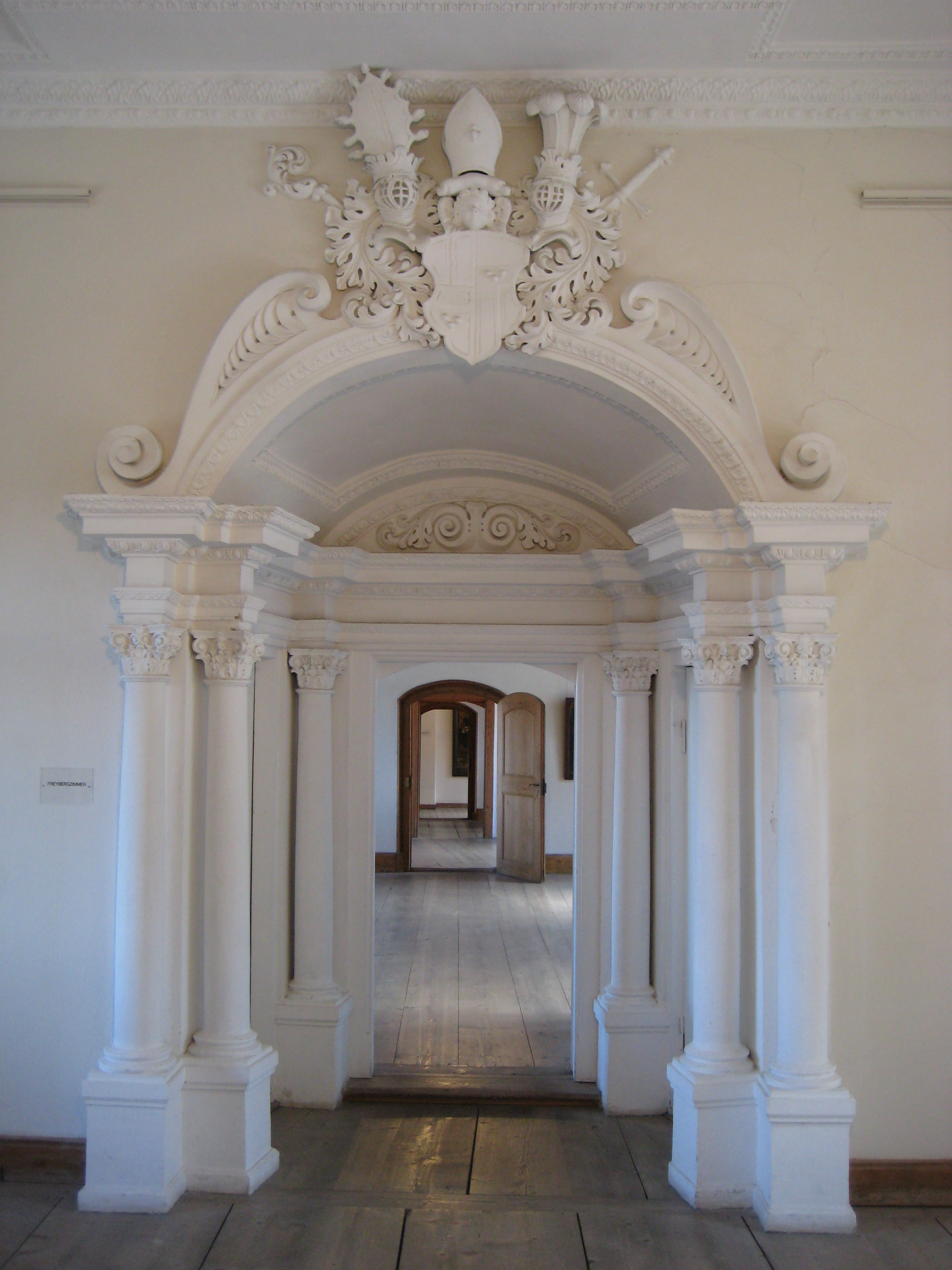 “Hohes Schloss” (High Castle) in Füssen, stuccoed baroque portal from Johann Schmuzer in the former rooms of the Prince-Bishop